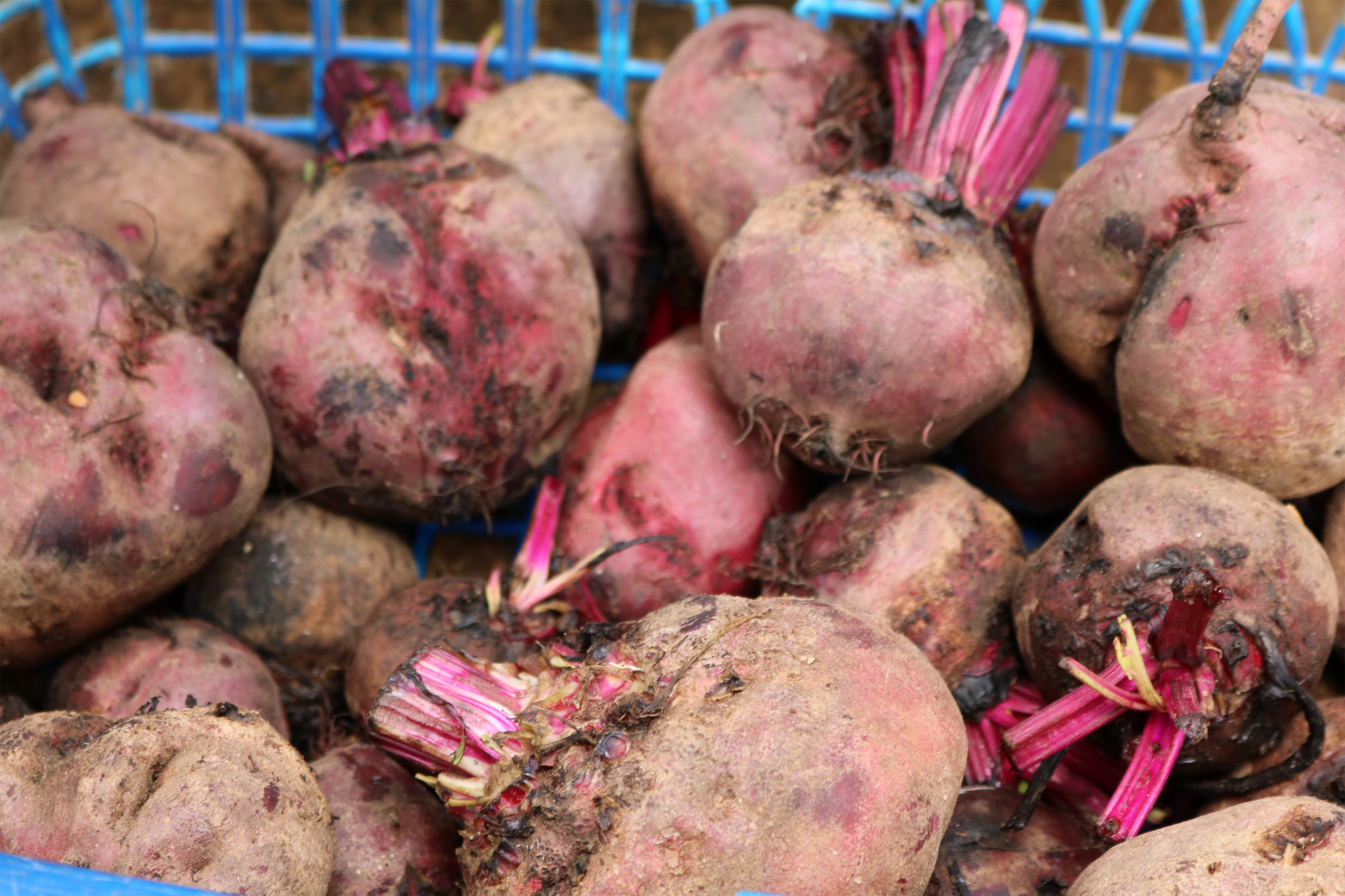 Nigerian Beetroot as seen in Garki Market, Abuja, Nigeria.